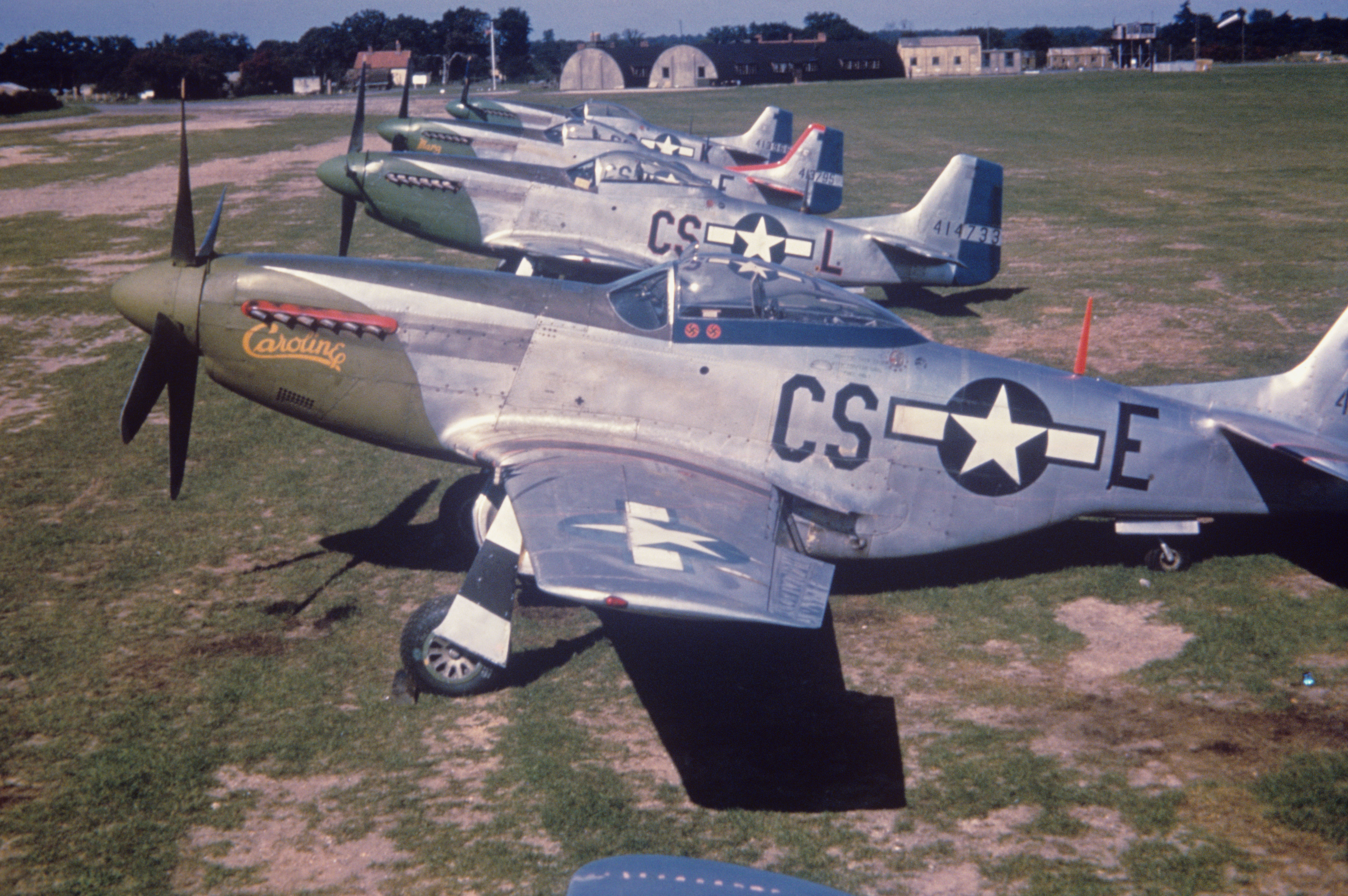 P-51 Mustangs (CS-E, serial number 44-13893) nicknamed "Caroline", (CS-L, serial number 44-14733) nicknamed "Ruggie's Ruthie" , (CS-F, serial number 44-13795) nicknamed "Marg" and (CS-K, serial number 44-13966) of the 359th Fighter Group lined up at East Wretham. Associated caption: 'Another line up of P-51s.'